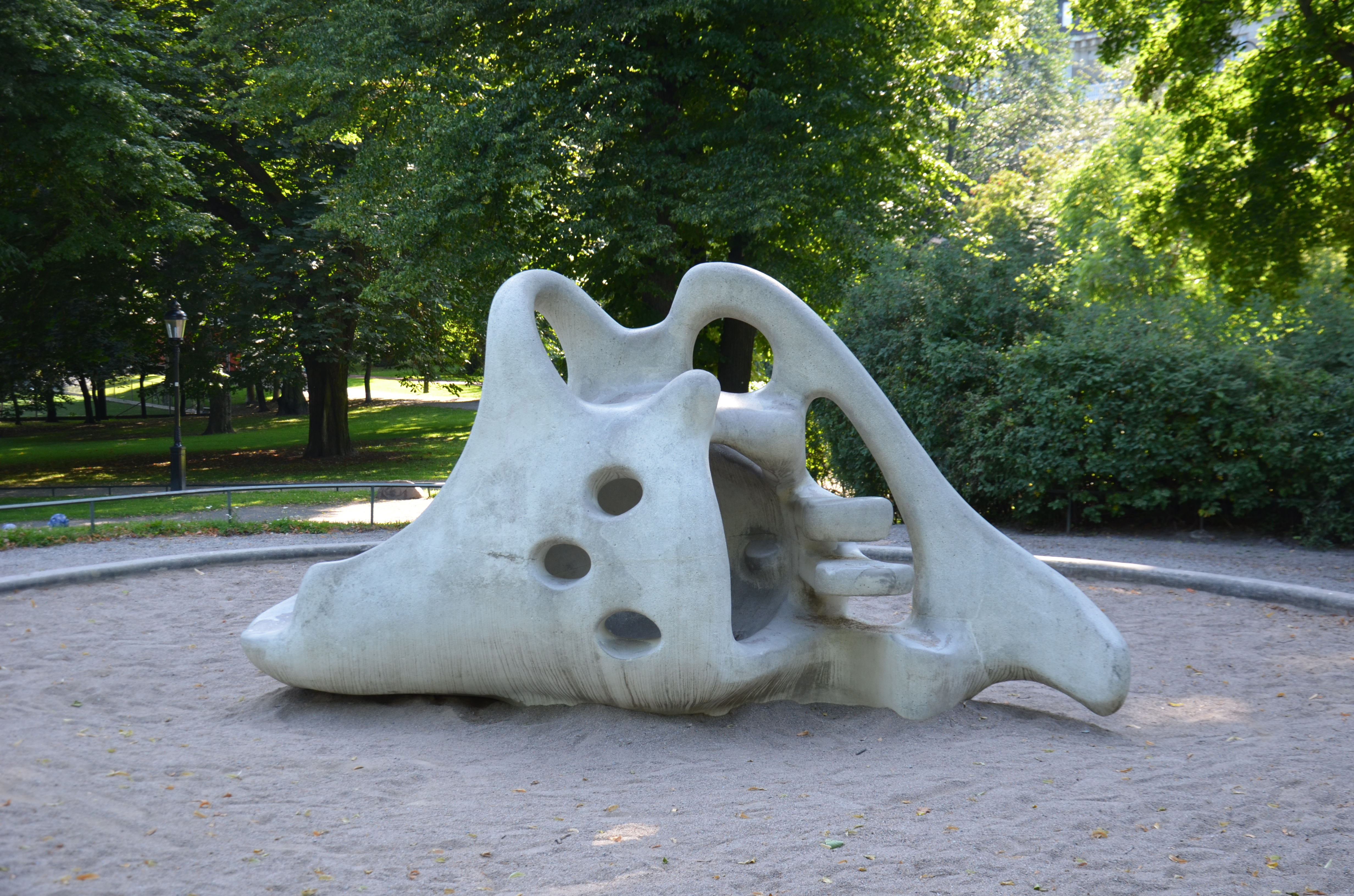 Tufsen av Egon Möller-Nielsen i Humlegården i Stockholm